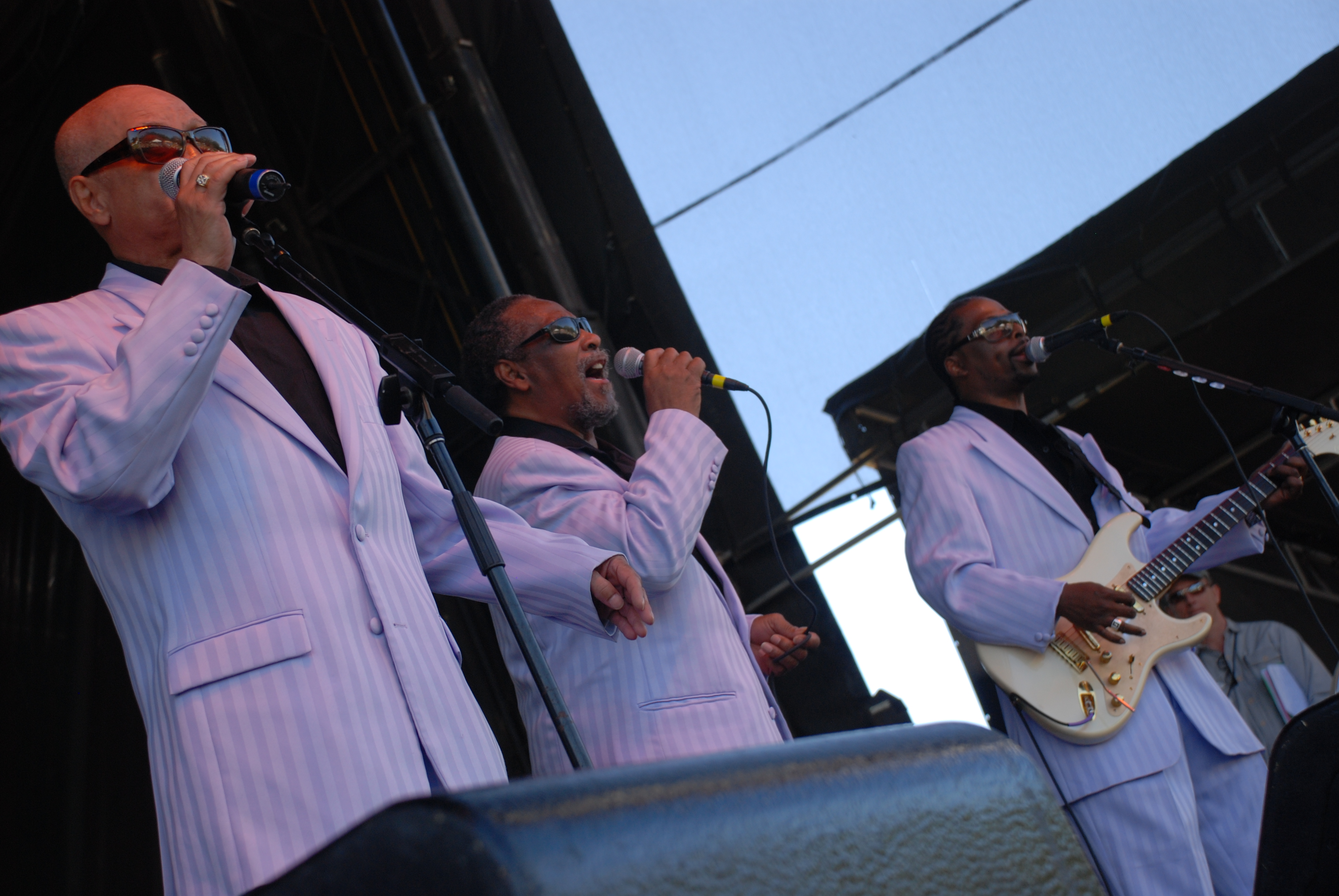 Blind Boys from Alabama at Voodoo Music Experience, New Orleans